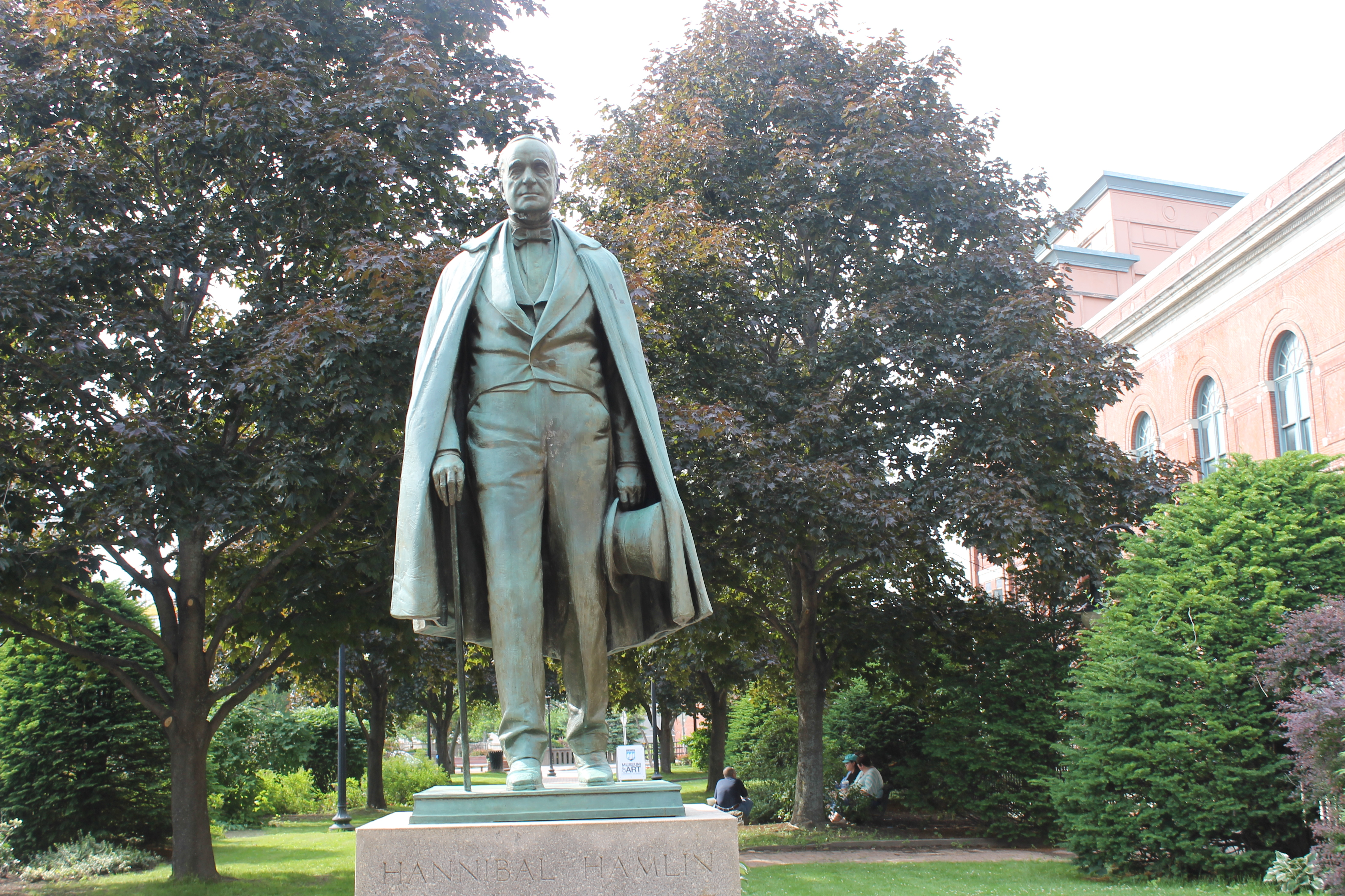 I took photo of Hannibal Hamlin statue in Bangor, ME, with Canon camera.